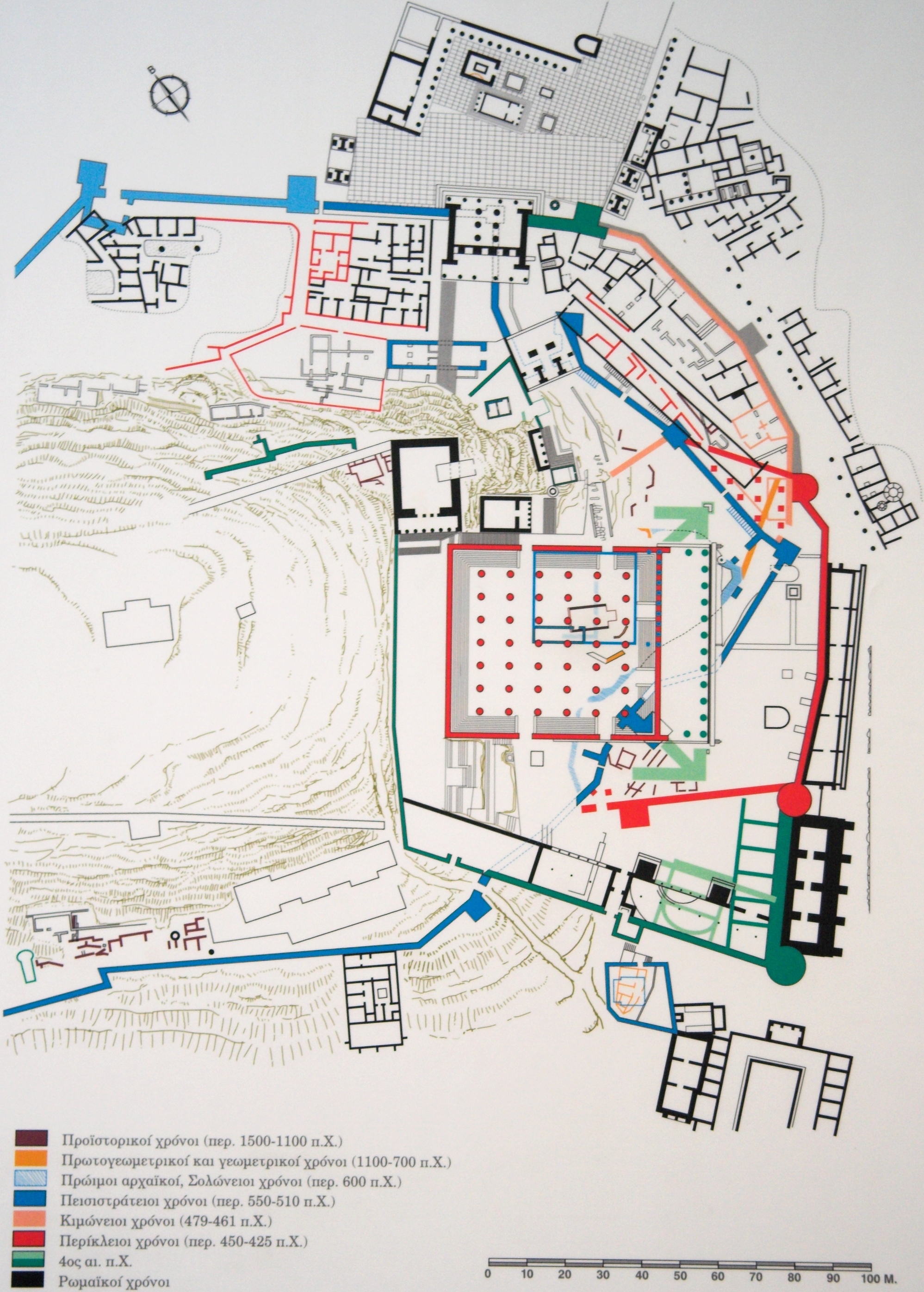 Plan of Eleusis. Archaeological Museum of Eleusis.